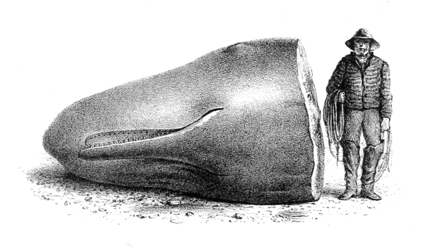 sperm whale 's head with a man